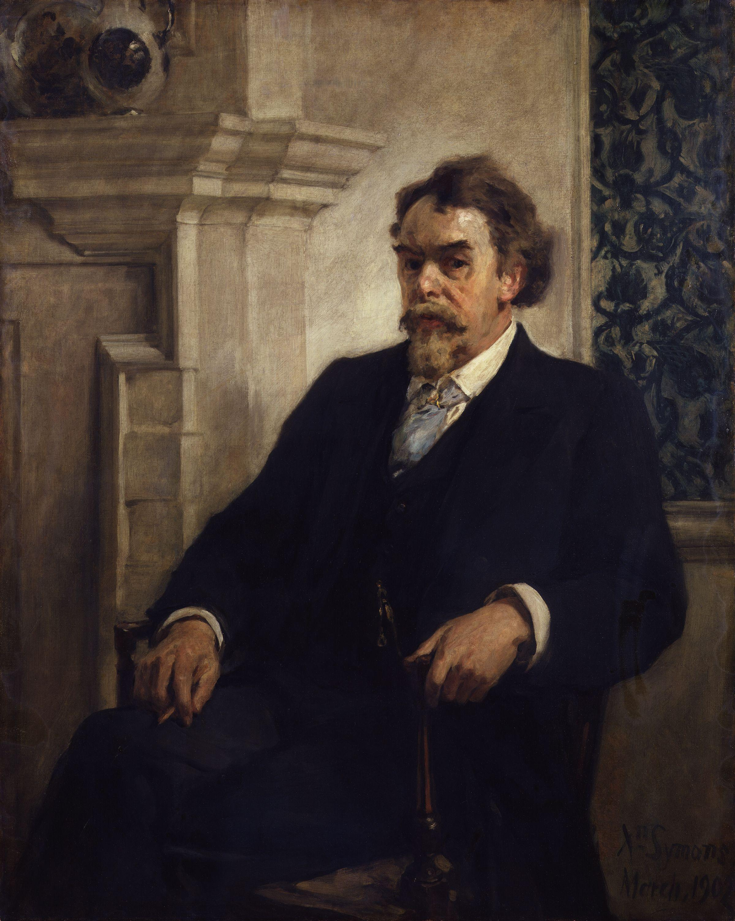 John Francis Bentley, by William Christian Symons (died 1911), given to the National Portrait Gallery, London in 1966. All images in this batch have been confirmed as author died before 1939 according to the official death date listed by the NPG.